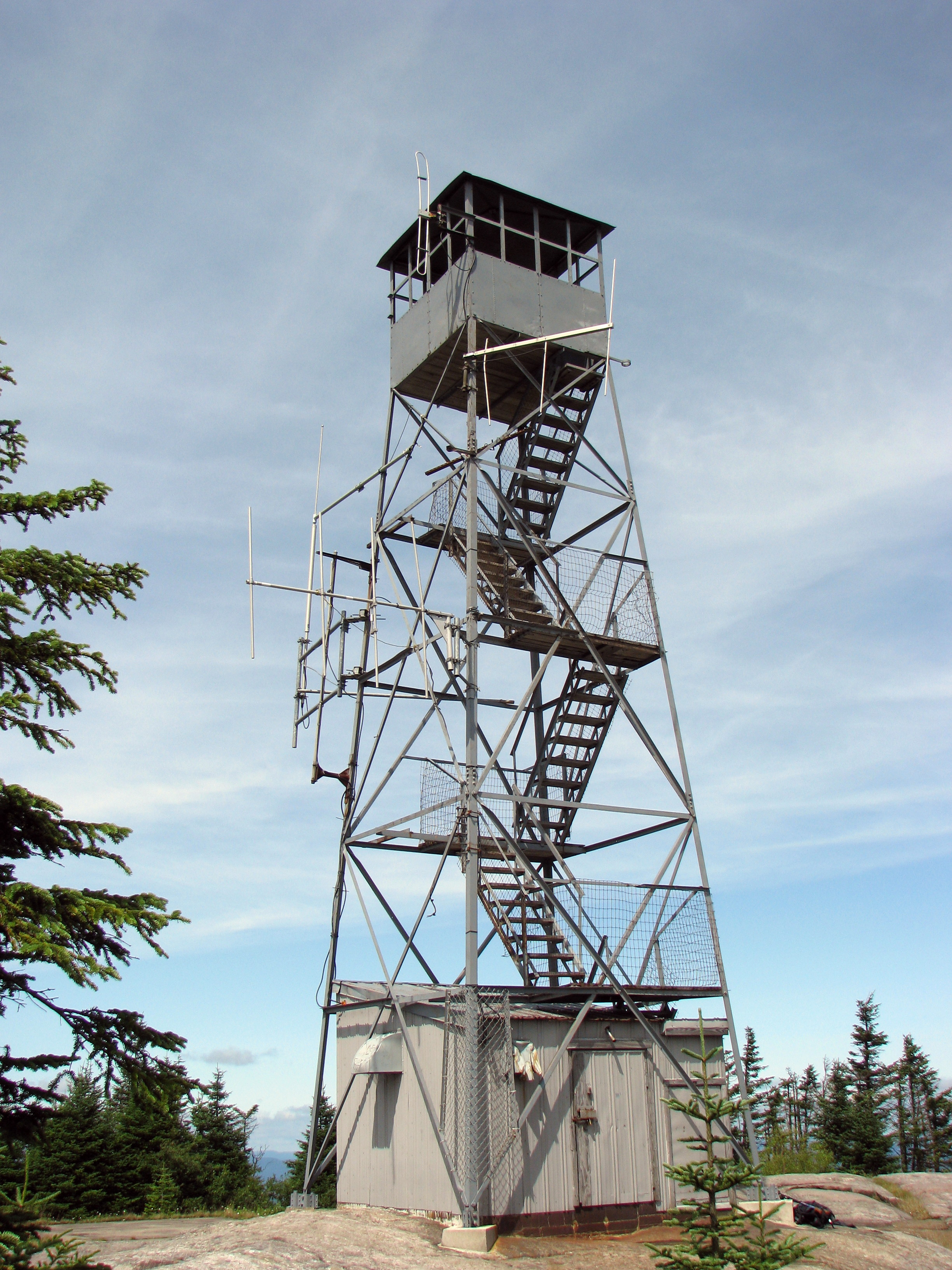 Blue Mountain Fire Observation Tower, Blue Mountain Lake (Long Lake), New York